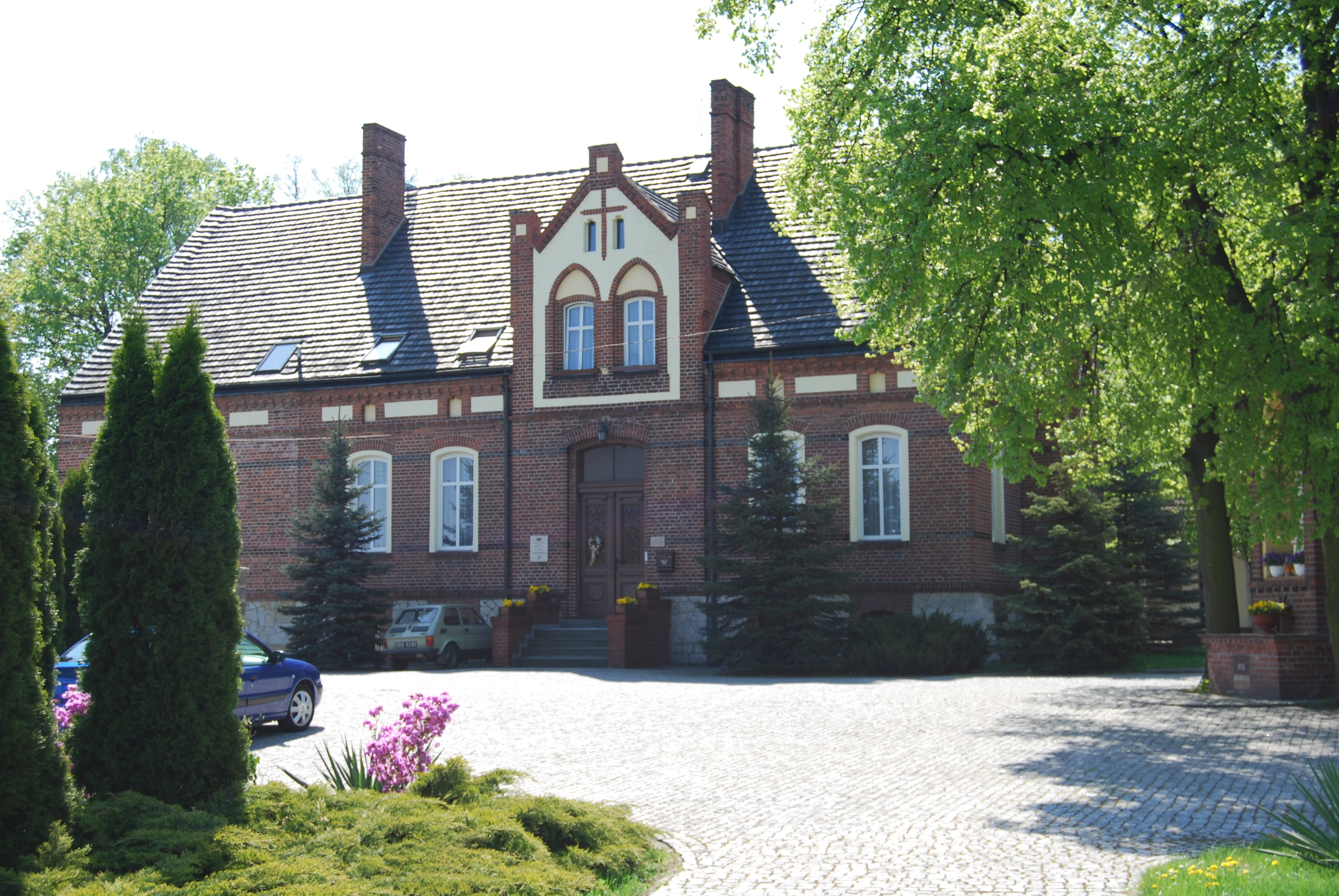 Czarnowąsy